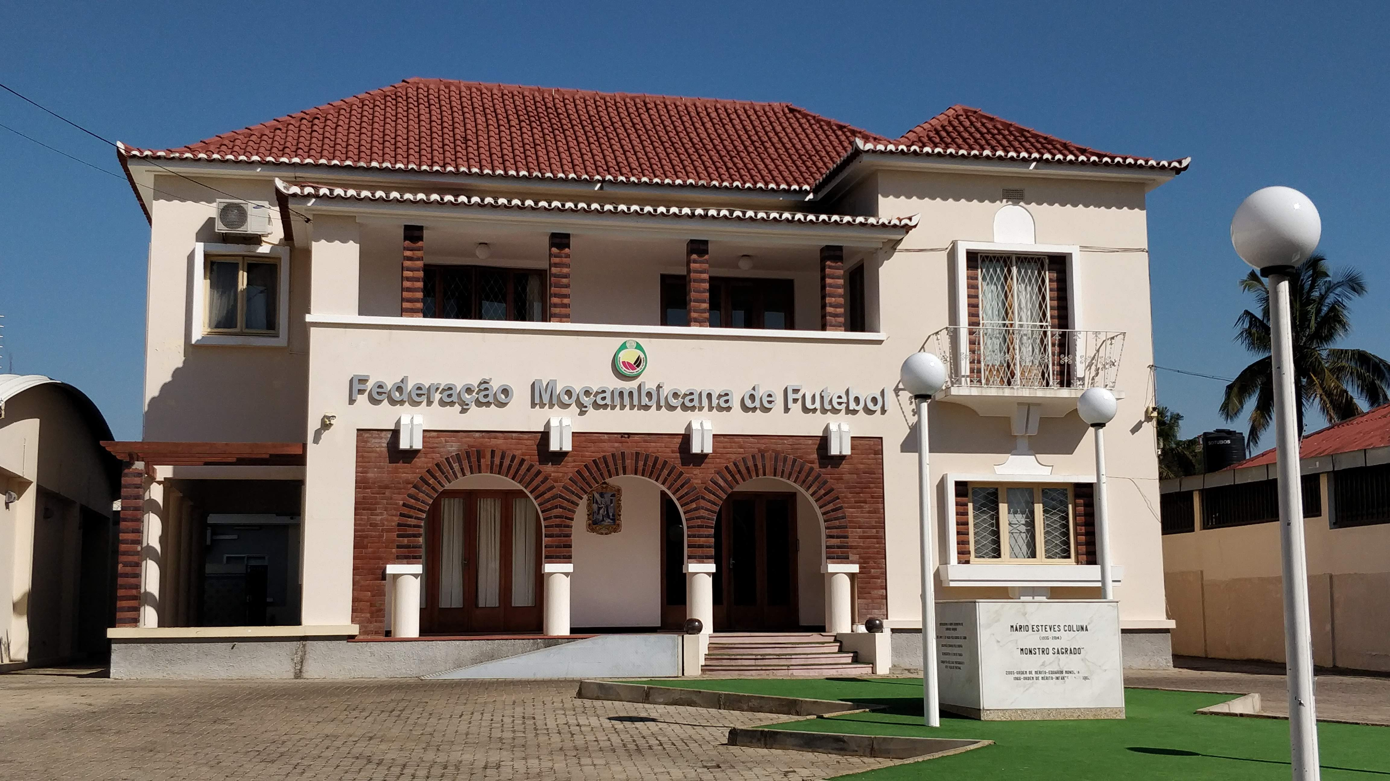 National Football Federation of Mozambique in Maputo, Mozambique